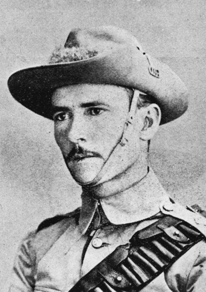 Lieutenant Lachlan J. Caskey of the 5th Queensland Contingent. Lieutenant Lachlan John Caskey was killed in South Africa in September 1901. The Caskey Monument at Toowong Cemetery in Brisbane was erected in his memory and is the first known Boer War monument built in Queensland. (Description supplied with photograph.).